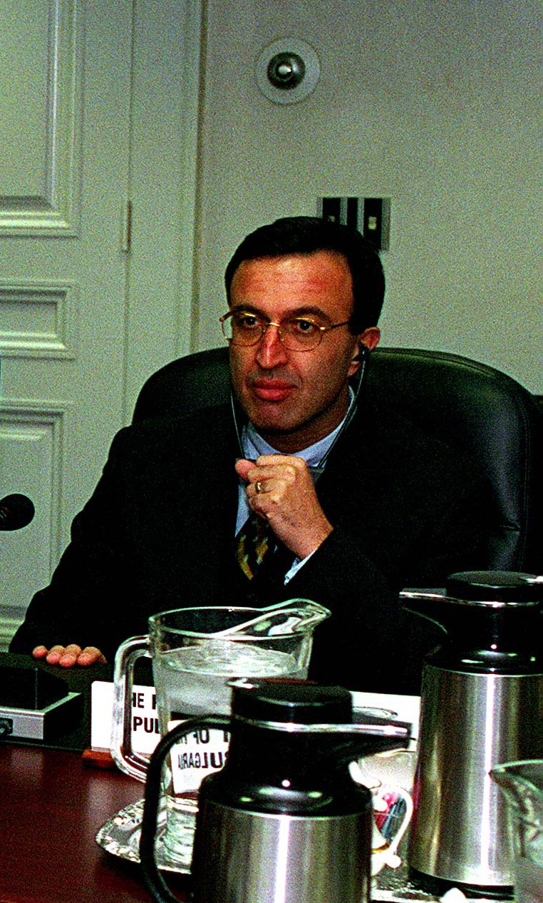 Deputy Secretary of Defense John Hamre (left, back to camera) meets with Bulgarian Foreign Minister Nadezhda Mihailova (center) and President Peter Stoyanov (right) at the Pentagon on February 12, 1998, to discuss a range of security issues of interest to both nations.